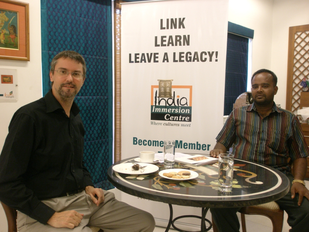 Chennai Magican P James with the British Author Darren Burnham prior to the release of the book "Looking For P James"